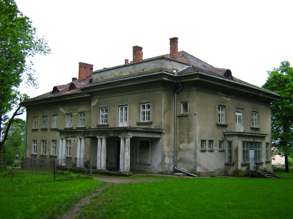 Lisowiecki's Court